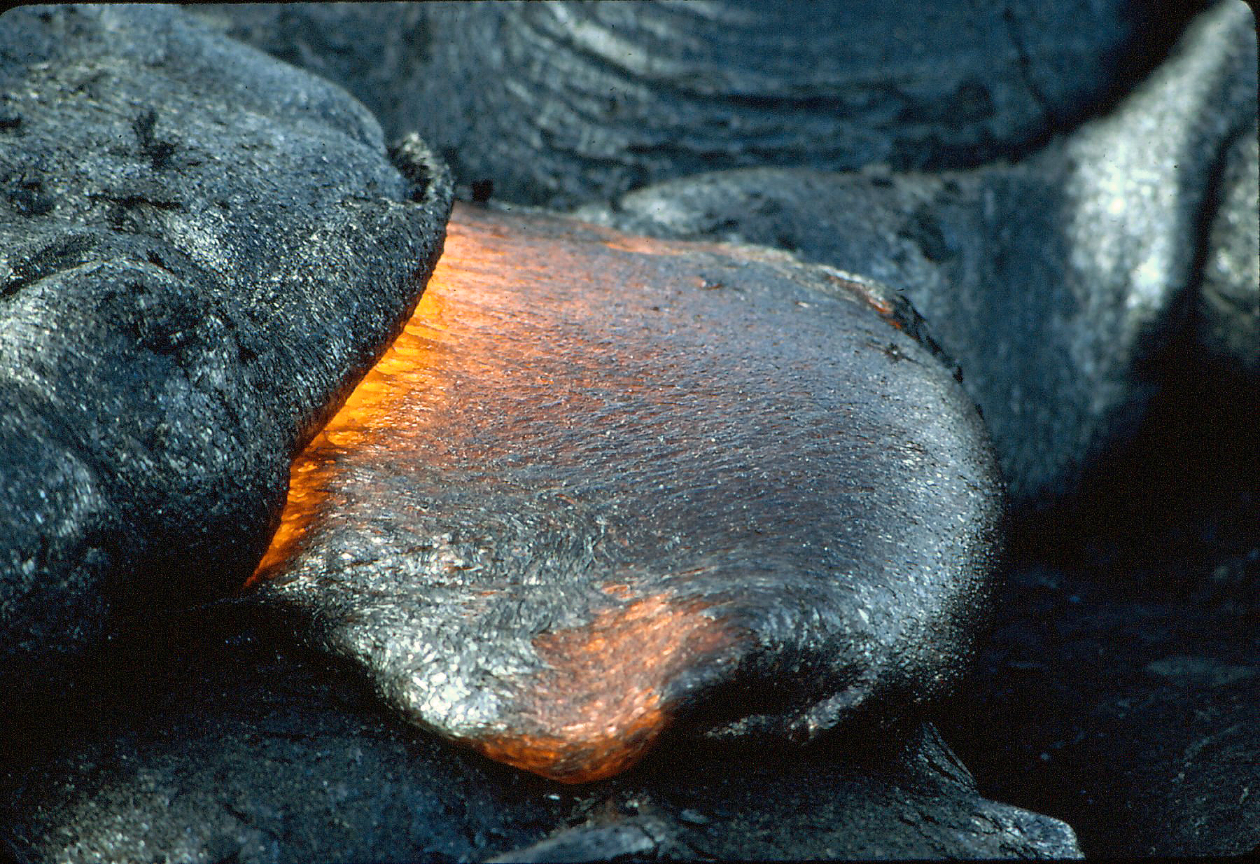 Closeup of lava flowing at Kilauea, Hawai'i Volcanoes National Park. A couple seconds after I shot this, there was a crackling sound off to my left. I looked up and about 15 feet away, a VW-sized slab of lava crust was being thust up and new lava began flowing from underneath. The NPS Ranger said "Dude, we better get out of here fast!" A few minutes later, the entire area where we had been standing was covered with fresh lava.